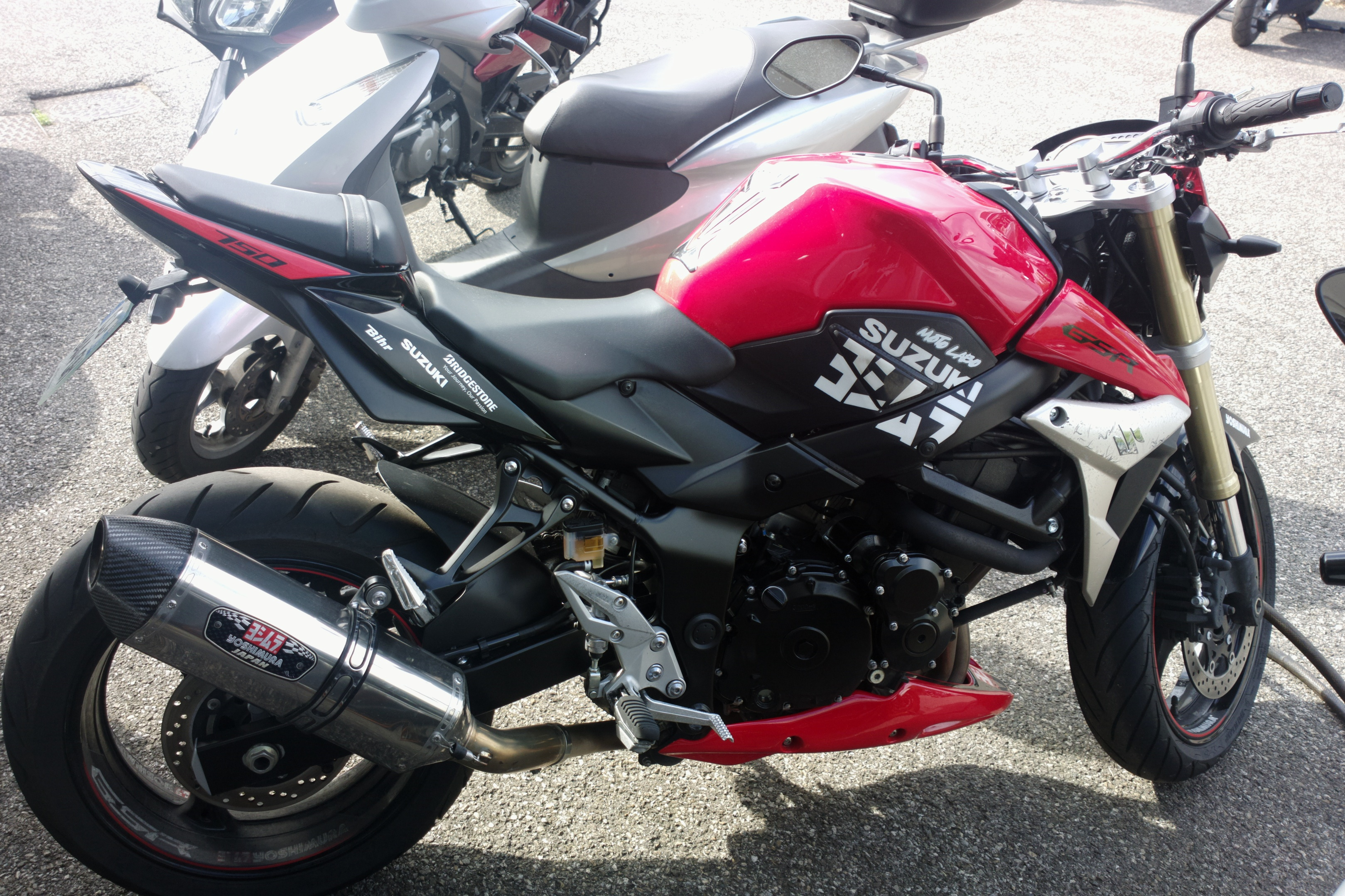 Gsr750 Yoshimura with Yoshimura R77-J exhaust, stickers and black/red color.